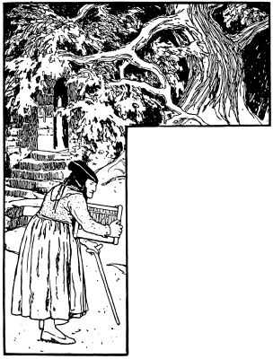 Illustration by Otto Ubbelohde to the fairy tale Jorinda and Joringel